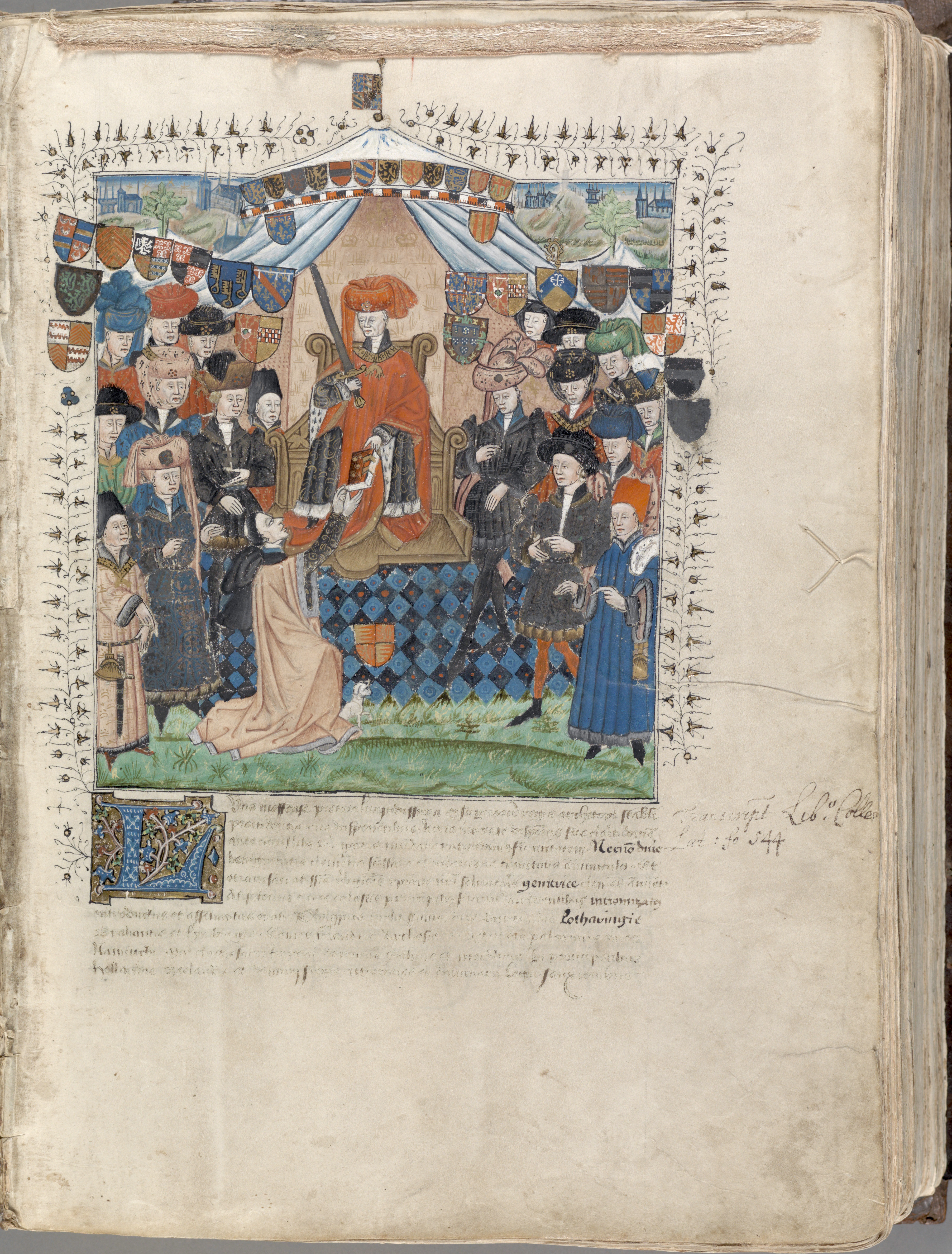 Philip the Good receives the Remissorium Philippi, a register of the archive of the counts of Holland. With this register, Philip knew the numerous privileges which where effective in Holland and Zeeland. The compiler, Pieter van Renesse van Beoostenzweene, is also drawn. He is kneeling in front of Philip.